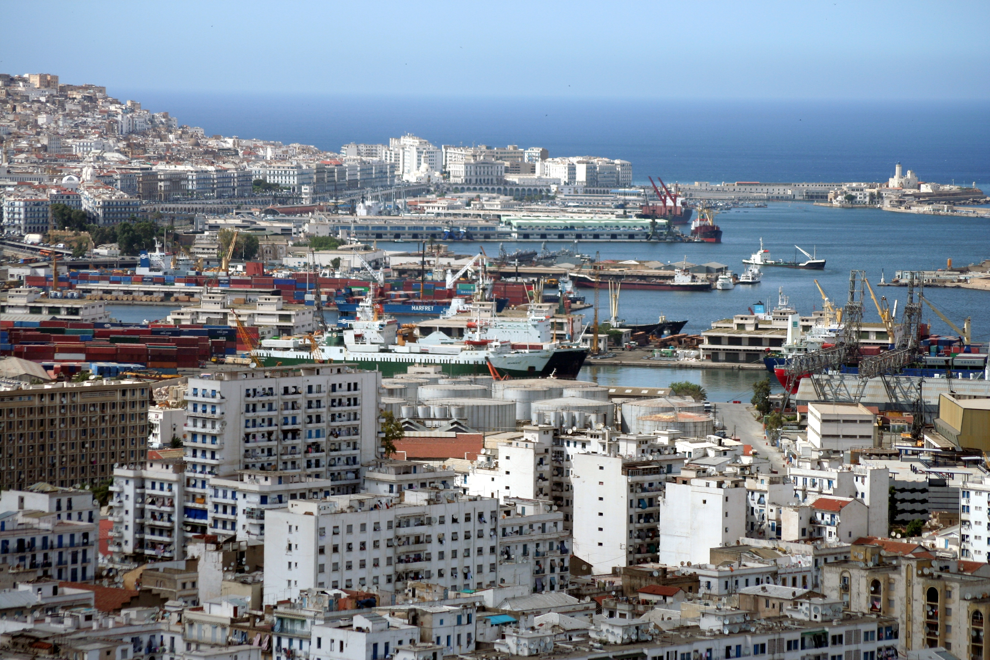 Algiers (Algeria), harbor and Belouizdad (aka. Belcourt) neighborhood